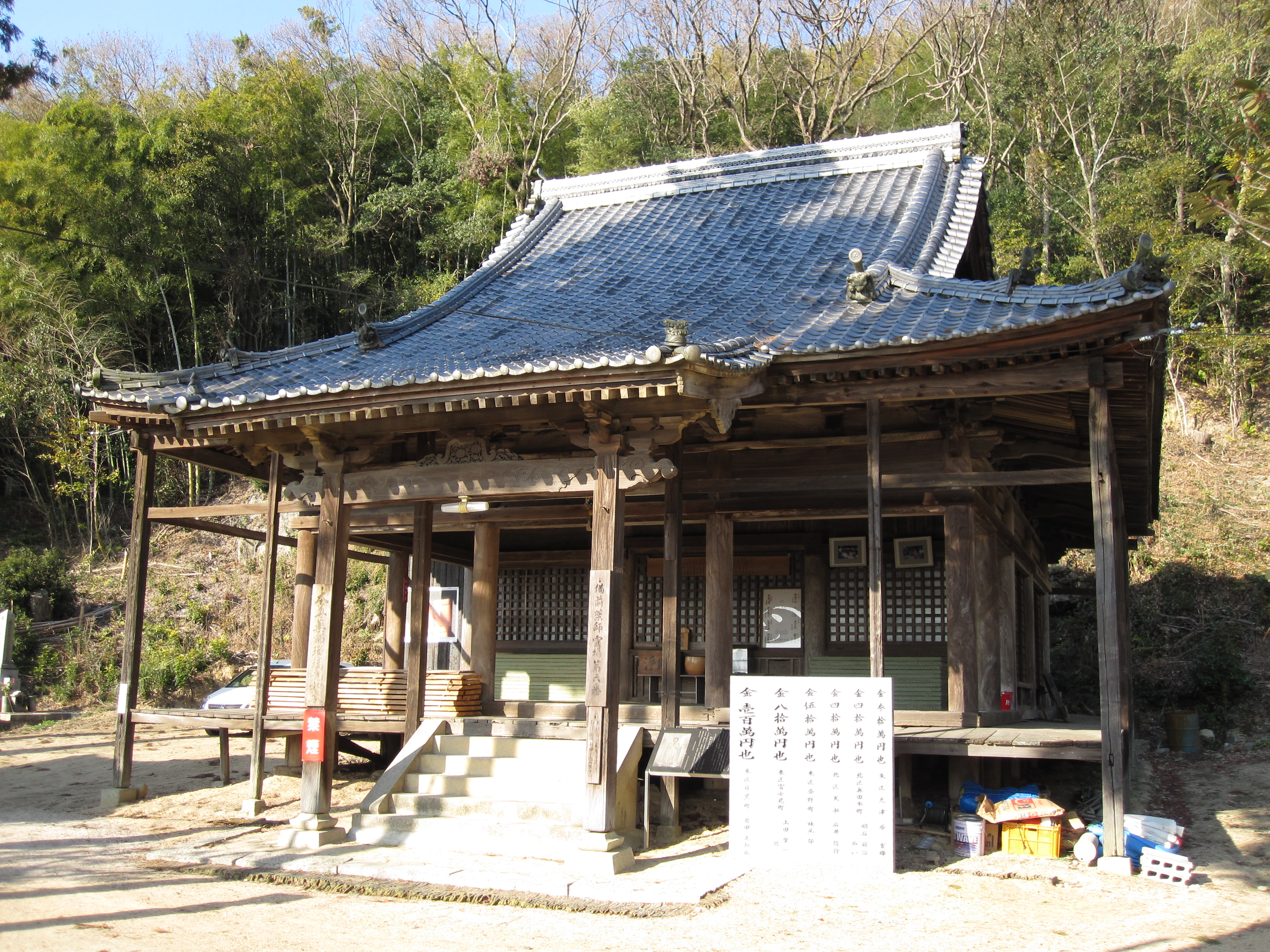 Main hall, Muryōju-in